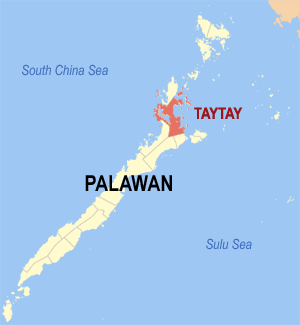 Map of Palawan showing the location of Taytay